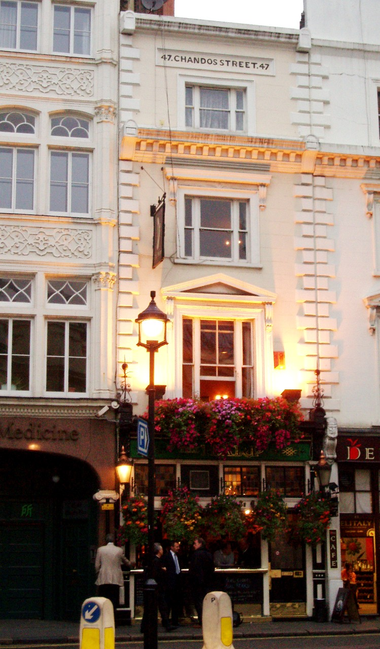 Pleasant pub if it's not too busy, especially the charming little upstairs room. However, usually it is very busy. (View of interior.) Address: 47 Chandos Place (formerly Chandos Street, as can be seen from the top of the building). Former Name(s): The Welsh Harp. Owner: Punch Taverns (former). Links: Randomness Guide to London Fancyapint Beer in the Evening Qype Dead Pubs (history)